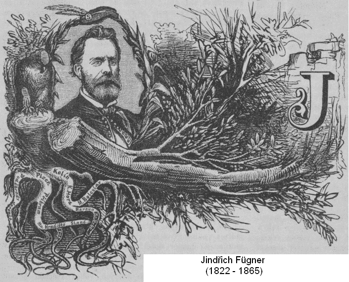 An artistic memorial to Jindřich Fügner, Czech patriot and promoter of physical education (co-founder of Sokol movement). The "J" at the right is the first letter of a commemorative poem by E. Züngel (1840 - 1895). The white rectangle with name and years of birth/death were added by myself, to avoid showing parts of the mentioned poem (anybody is free to modify / improve the appearance of this part).